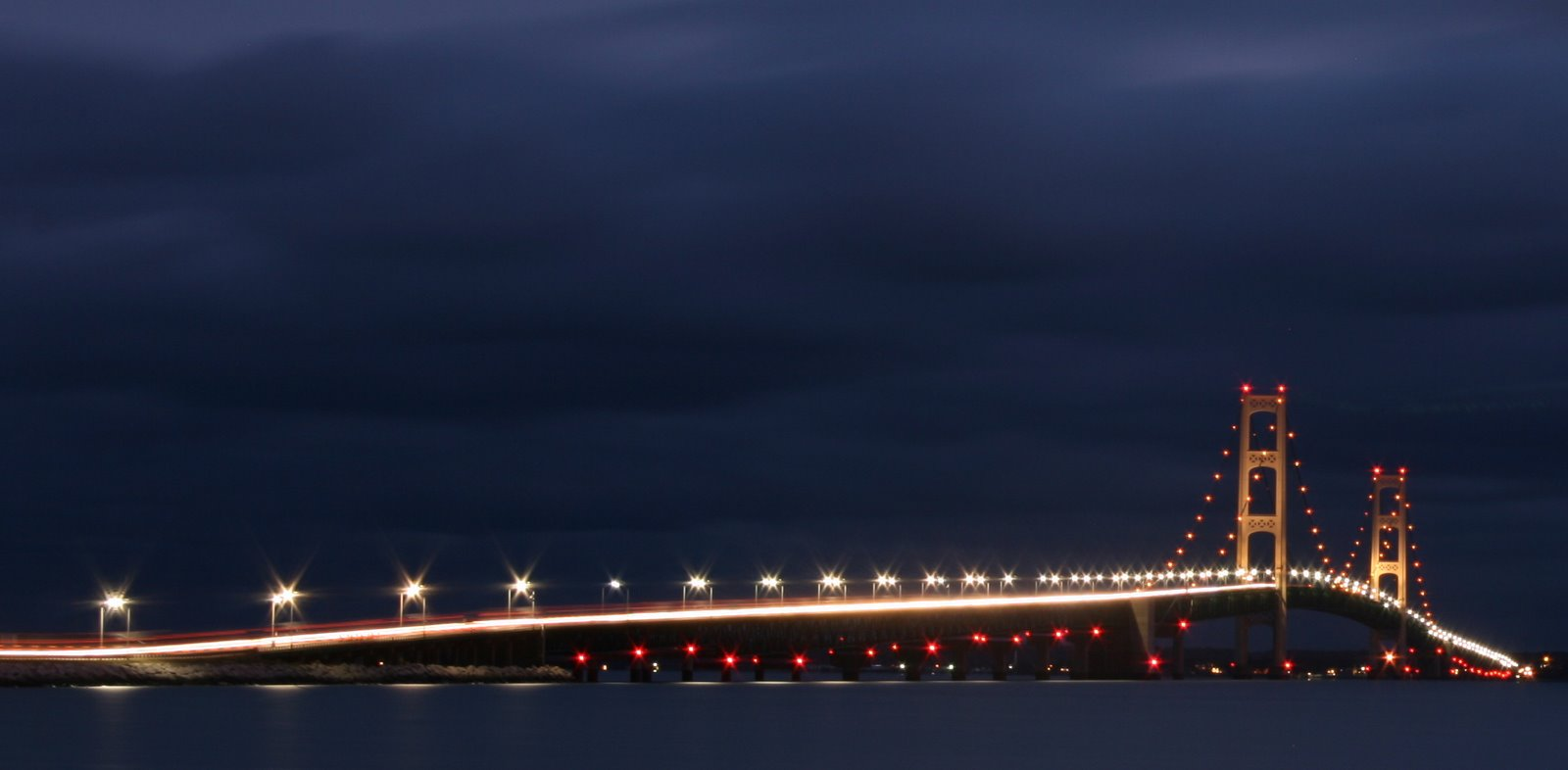 Mackinaw Bridge looking south at night